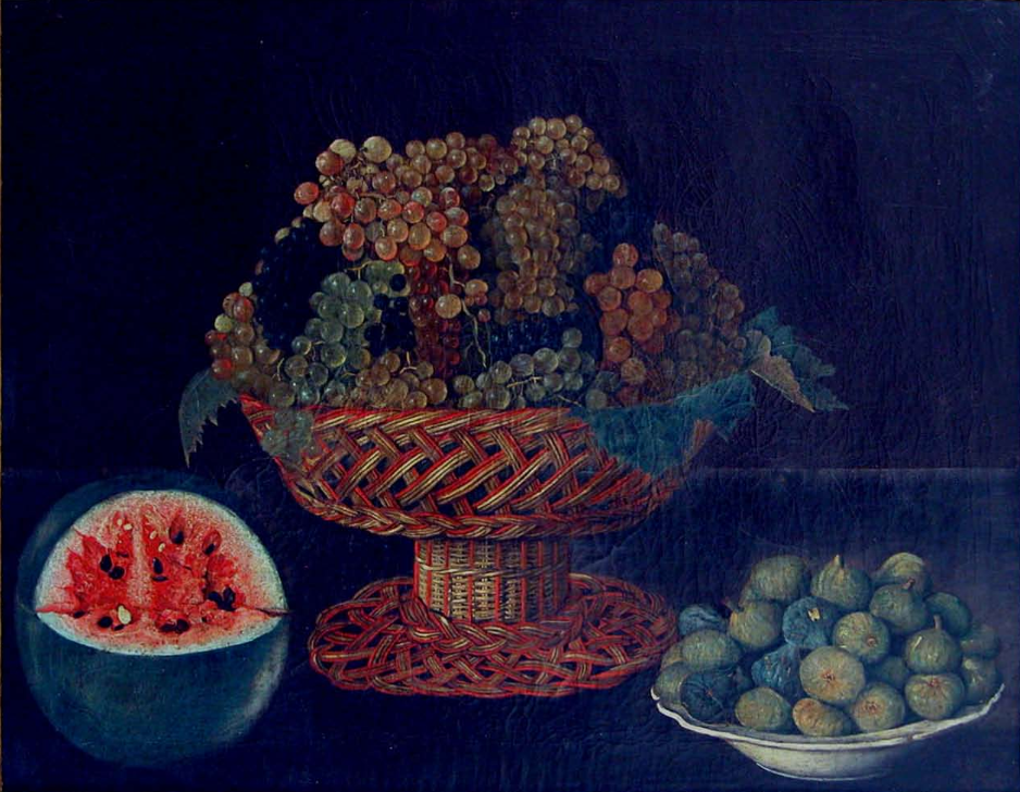 Still-life with Watermelon, Grapes, and Figs (c. 1785), by the Majorat of Setúbal.